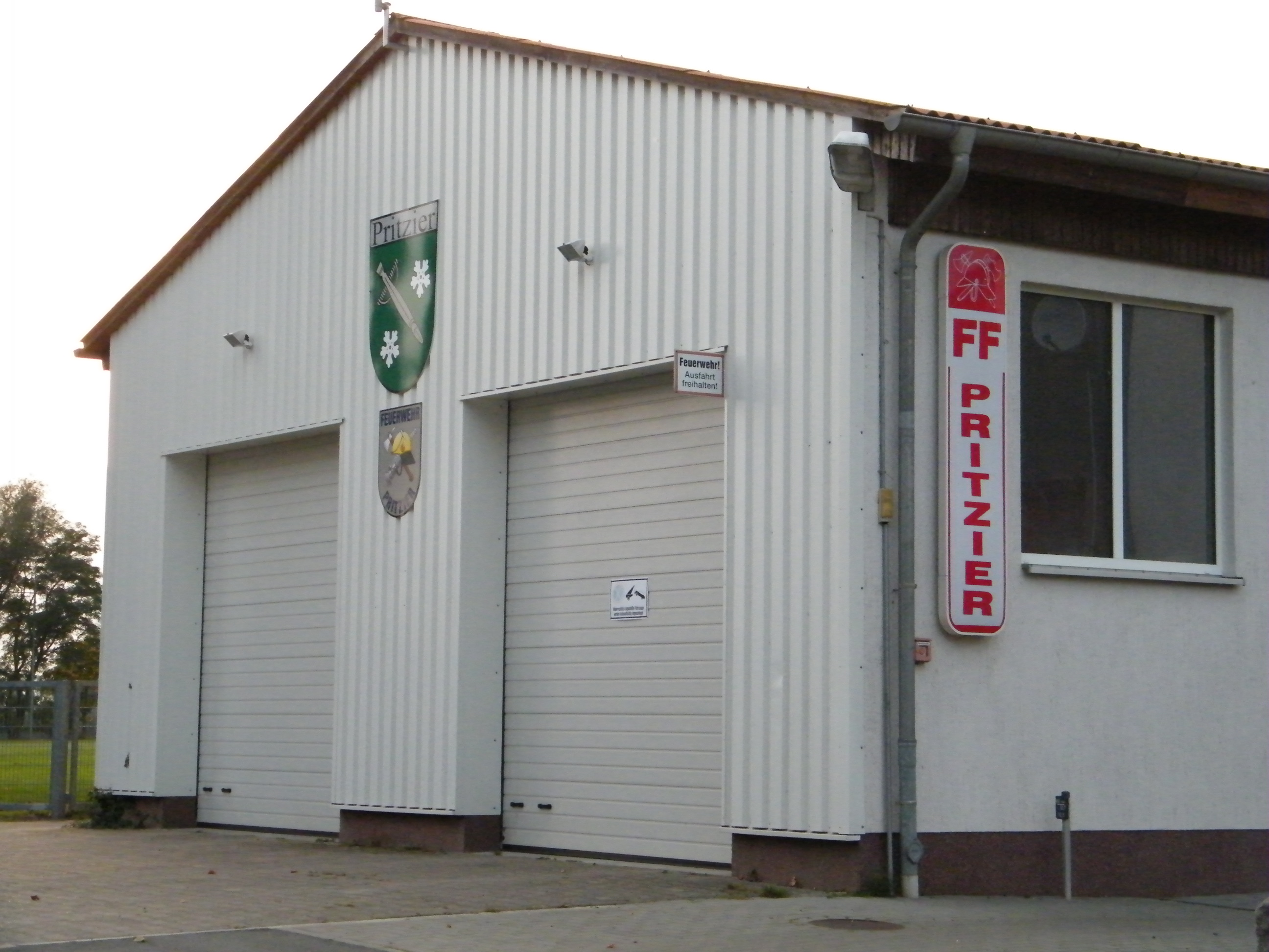 house of the auxillary fire brigade Pritzier